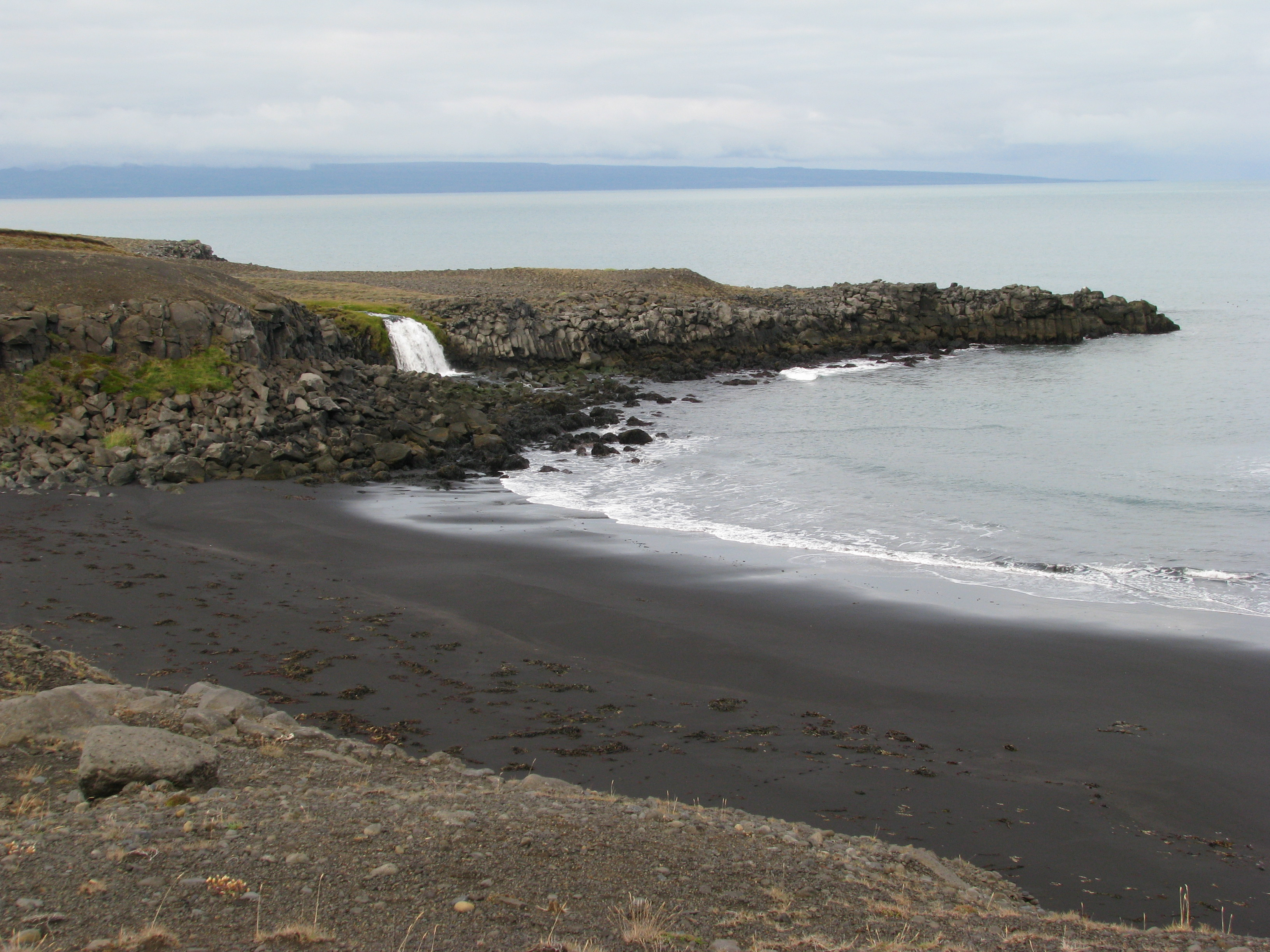 Naustárfoss, waterfall, Melrakkaslétta, Iceland